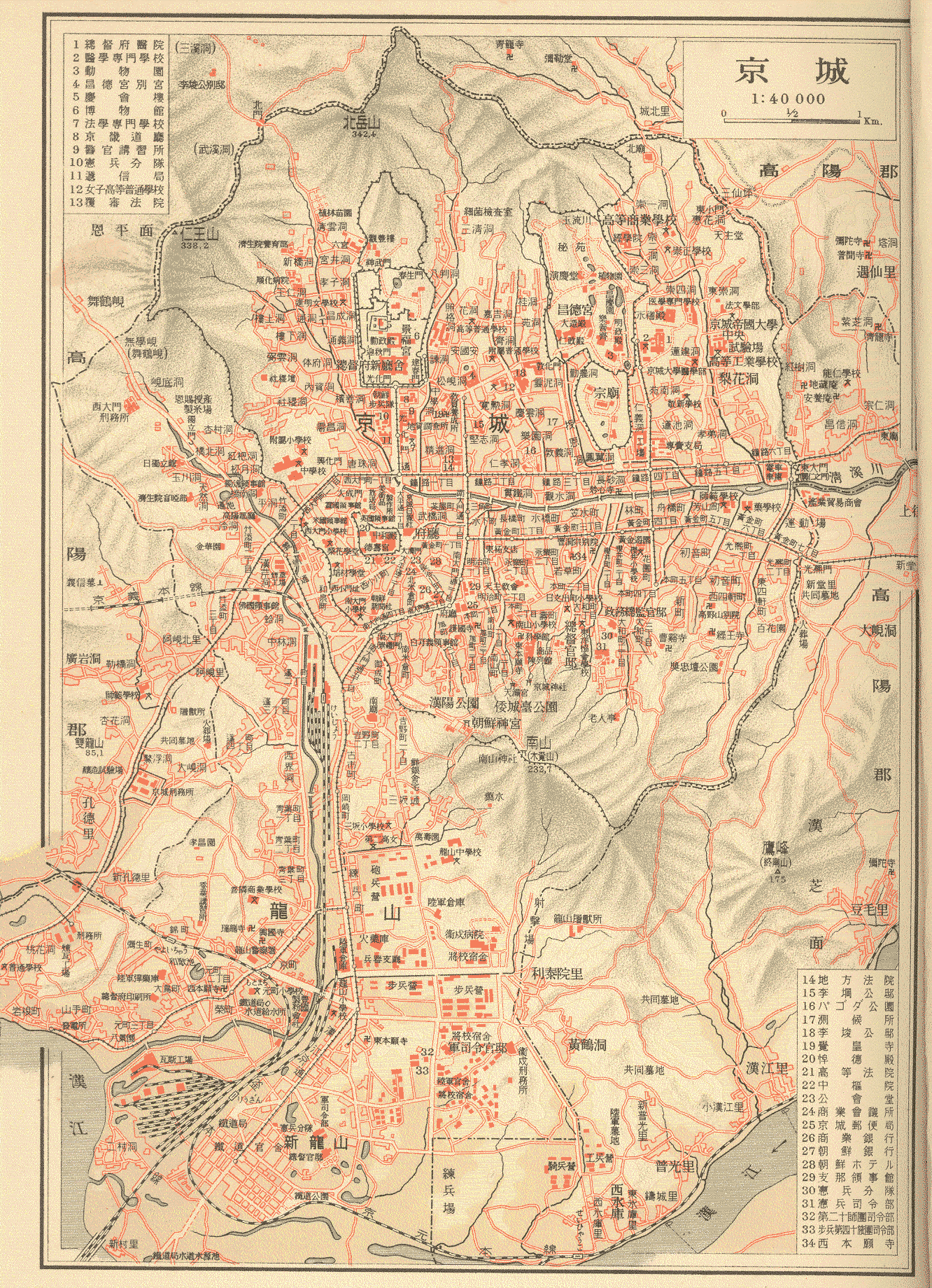 Map of Keijo (now Seoul)